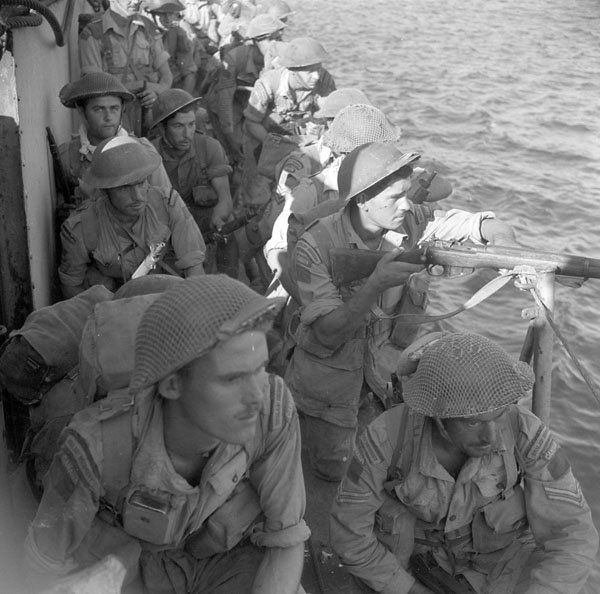 Personnel of Le Royal 22e Régiment getting ready for disembarkation, Villapiana, Italy, 16 September 1943.